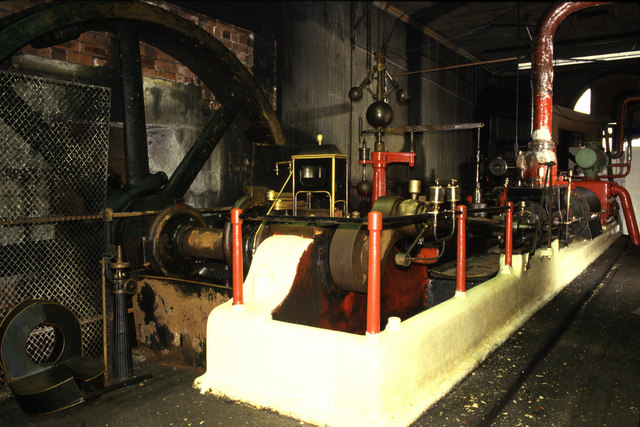 Steam Engine, Runtlings Mill, Ossett, Wakefield. A shoddy and mungo mill, later owned by an engineering company. 1908 Marsden's Engines Ltd horizontal tandem compound steam engine. Now being installed at Markham Grange Steam Museum, Brodsworth.